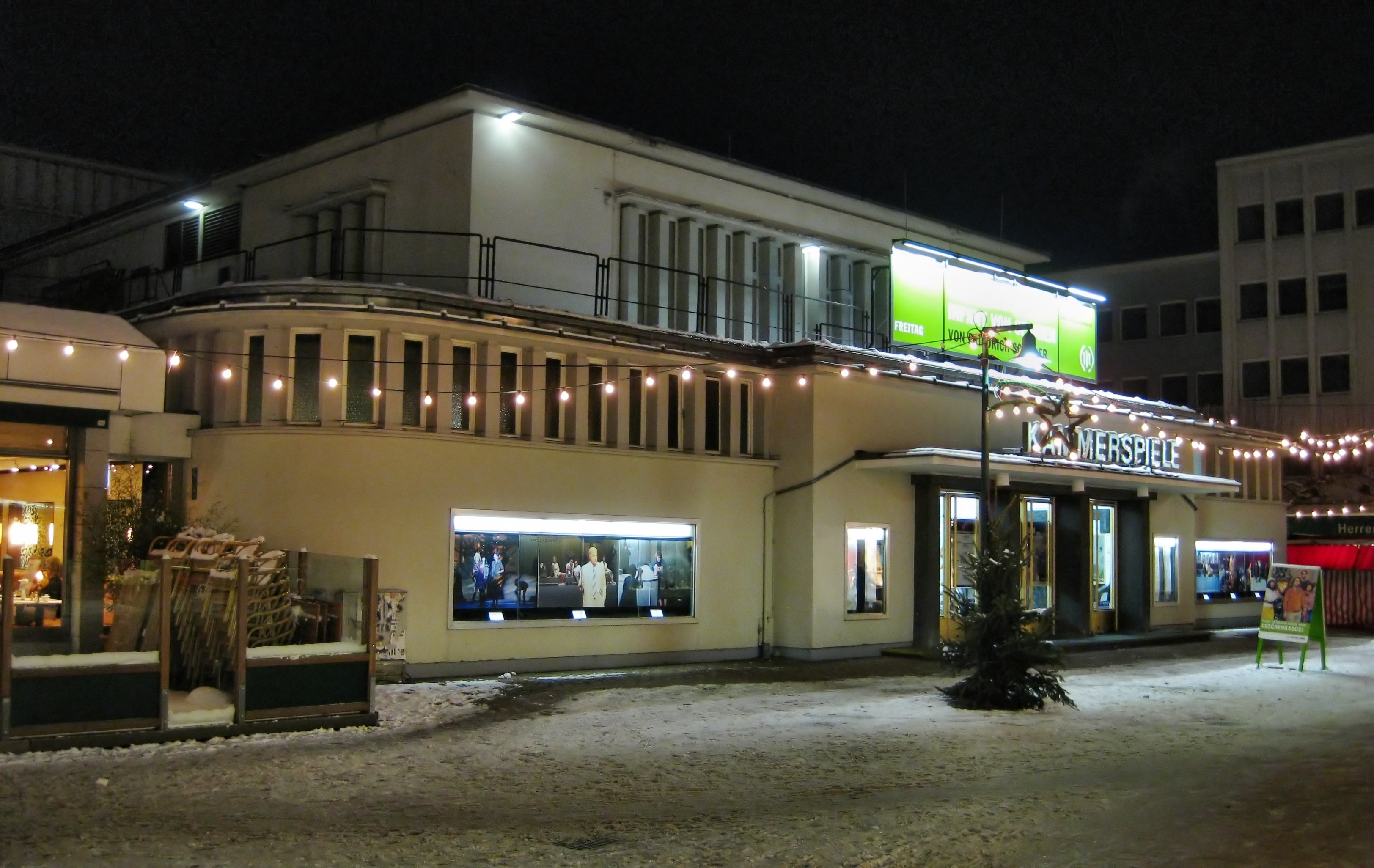 Kammerspiele: former cinema; now one of theatre Bonn's performance spaces, Theaterplatz, Bonn-Bad Godesberg